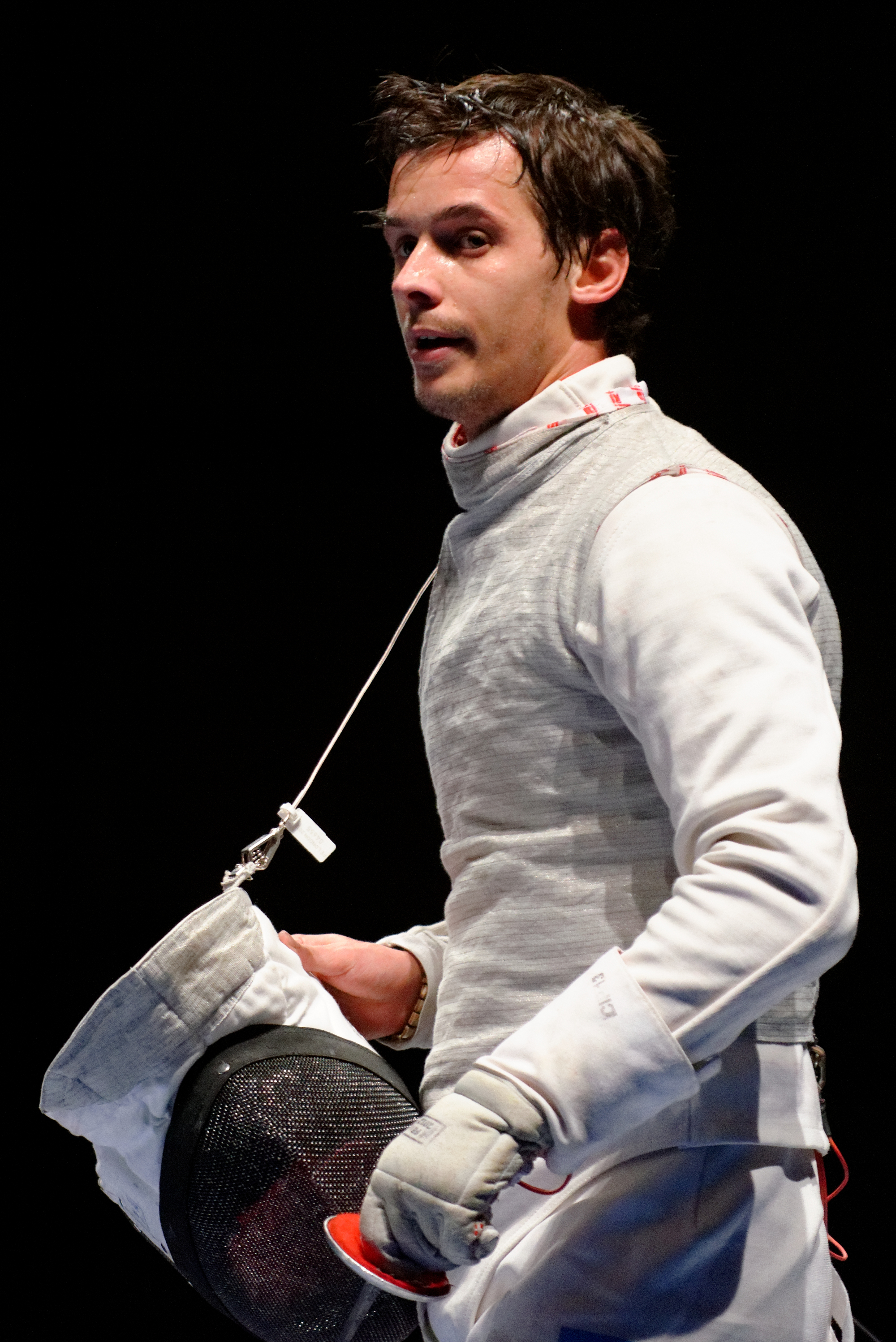 Andrea Baldini during the final of the Challenge international de Paris 2013 (foil world cup tournament in Paris).